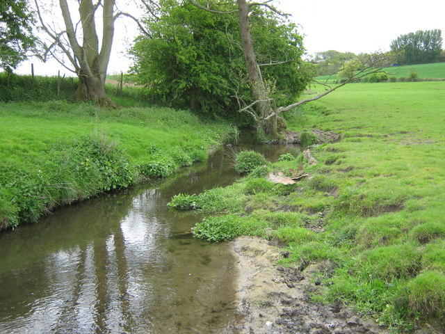 The River Stour near its source, at Lenham in Kent. For more information see the Wikipedia article River Stour, Kent.